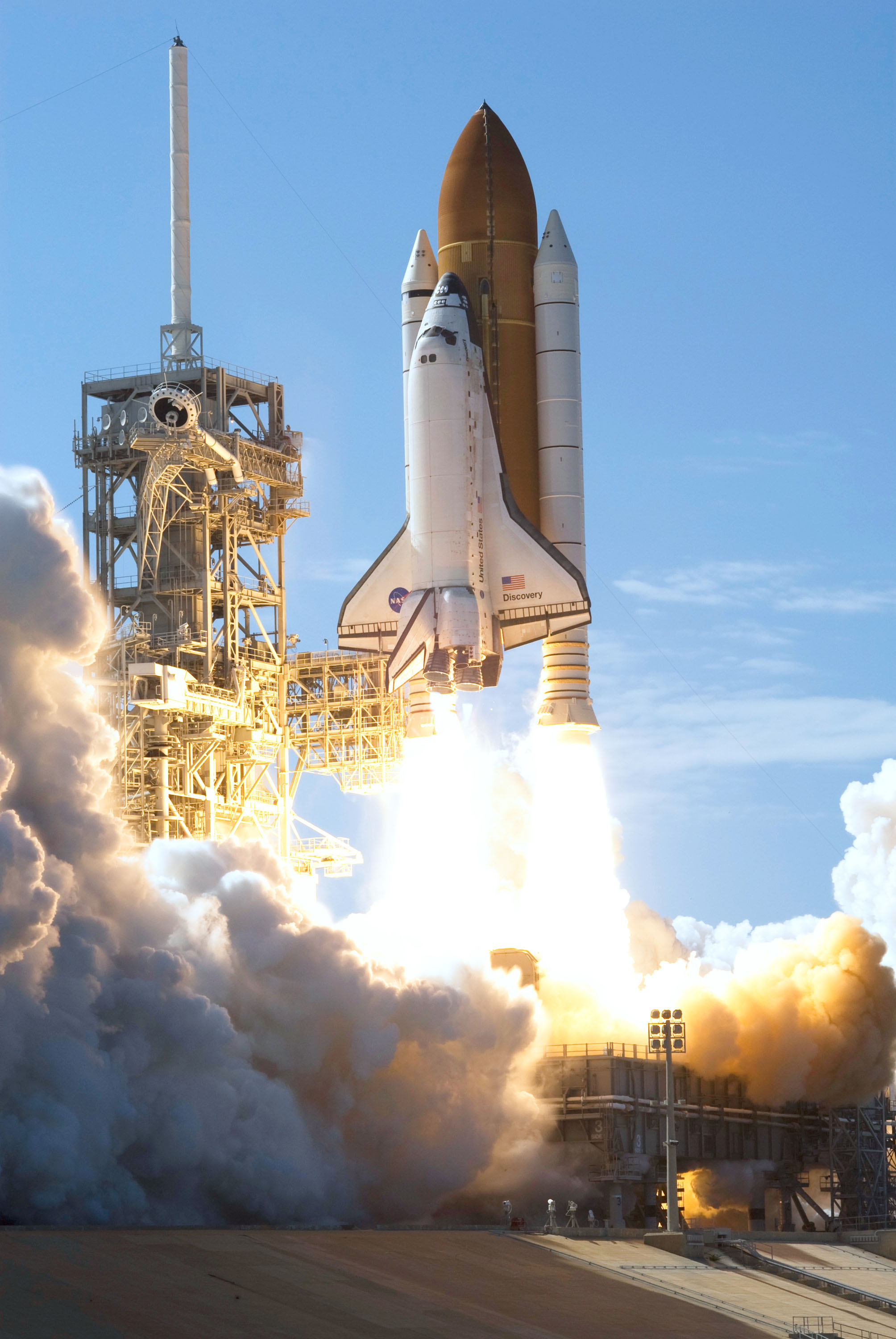 STS124-S-032 (31 May 2008) --- The Space Shuttle Discovery and its seven-member STS-124 crew head toward Earth-orbit and a scheduled link-up with the International Space Station (ISS). Liftoff from Kennedy Space Center's launch pad 39A occurred at 5:02 p.m. (EDT). The STS-124 mission is the 26th in the assembly of the International Space Station. It is the second of three flights launching components to complete JAXA's Kibo laboratory. During the mission, the shuttle crew will install Kibo's large Japanese Pressurized Module and its remote manipulator system. Onboard are astronauts Mark Kelly, commander; Ken Ham, pilot; Karen Nyberg, Mike Fossum, Ron Garan, Greg Chamitoff and Japan Aerospace Exploration Agency (JAXA) astronaut Akihiko Hoshide, all mission specialists. Chamitoff will join Expedition 17 in progress to serve as a flight engineer aboard the station.